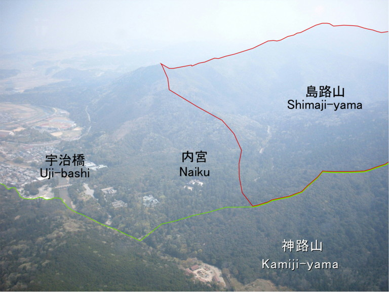 Shimajiyama & Kamijiyama at Sanctuary of Kotaijingu (Naiku) at Ise city Mie Prf. Japan.